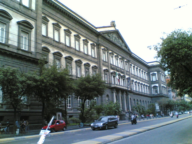 Front side of University "Federico II" in Naples